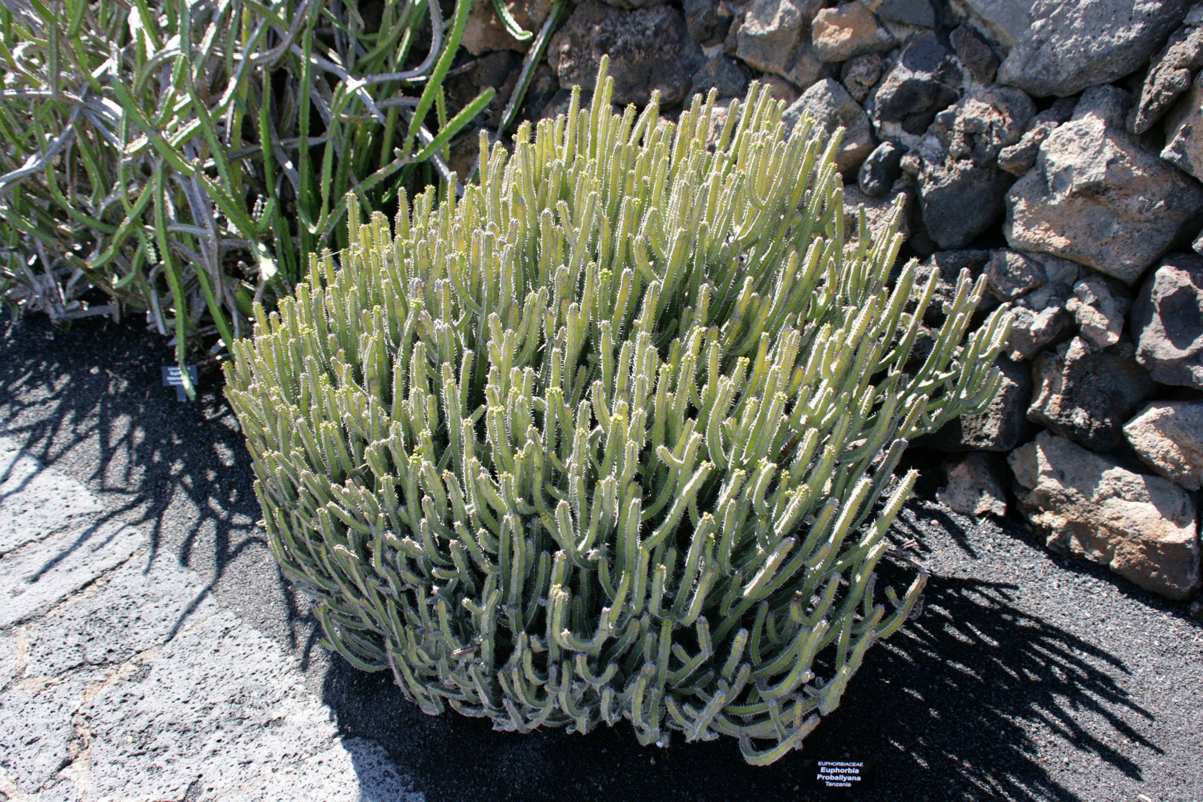 Euphorbia proballyana grown in the Botanical Garden “Jardin de Cactus” in Guatiza, Teguise, Lanzarote, Canary Islands